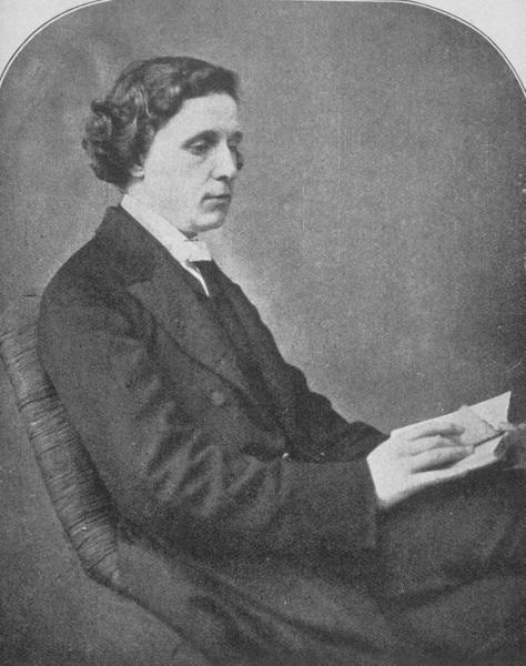 Portrait of English author and professor of mathematics at Oxford, Lewis Carroll (pen name of Charles Dodgson), from THE LIFE AND LETTERS OF LEWIS CARROLL by Stuart Dodgson, 1898.